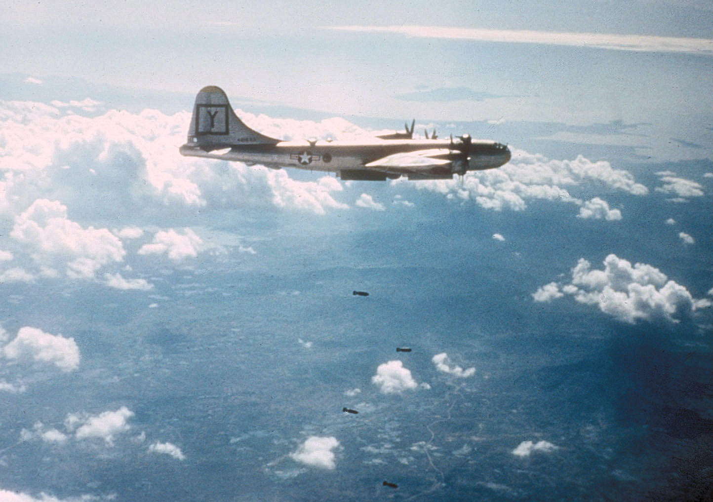 A U.S. Air Force Boeing B-29 Superfortress from the 307th Bomb Group bombing a target in Korea, circa 1950-51.